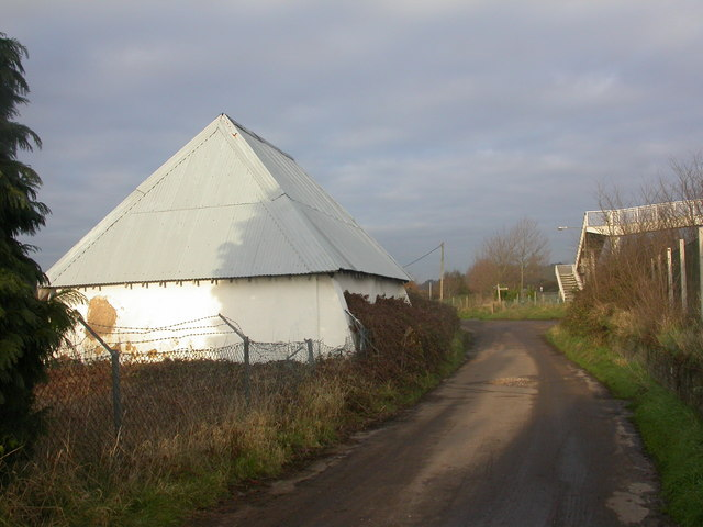 Holdenhurst, barn. English Heritage-listed barn at the southern end of Holdenhurst village. Cob, no windows; the corrugated hat covers a thatched roof, and apparently protects it from fire damage. To the right can be seen the western end of the footbridge over the A338 1076634.